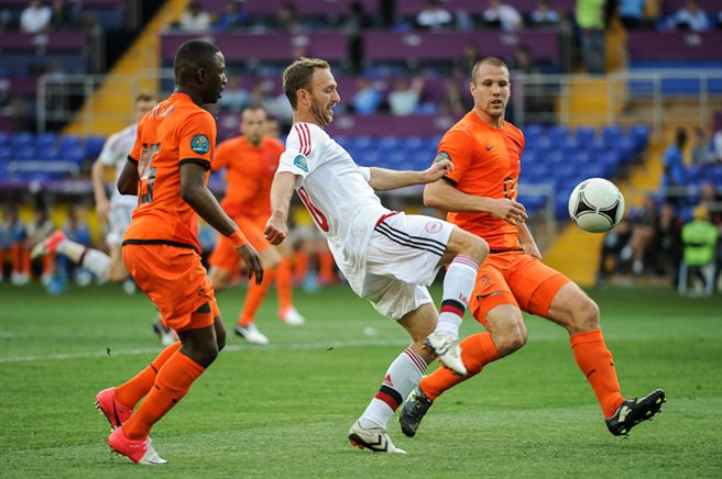 UEFA Euro 2012 match between Netherlands and Denmark that took place in Kharkiv. Final result was 0:1 (Krohn-Delhi)